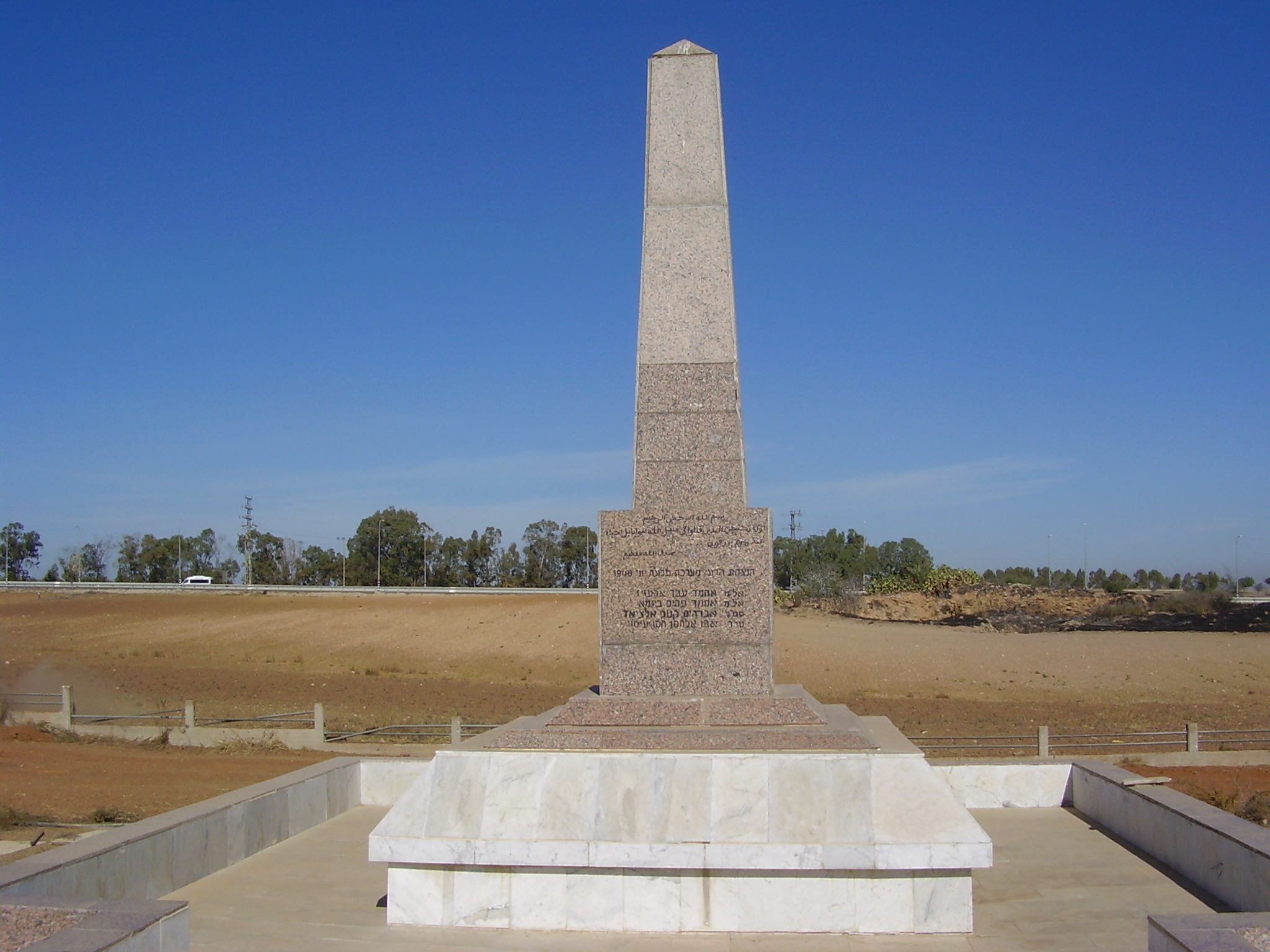 egyptian army memorial near kibbutz sde yoav